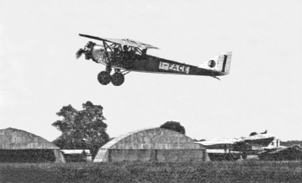 OFM Ro.5, Orly, August 1929